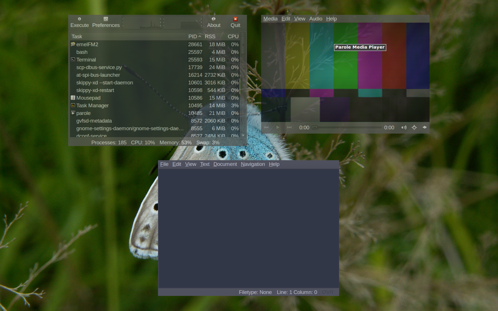 Screenshot of Skippy-XD under Xfce 4.10 on Xubuntu 12.04 Precise. Three apps are available for the user to choose: Xfce4 Taskmanager, Parole and Mousepad.